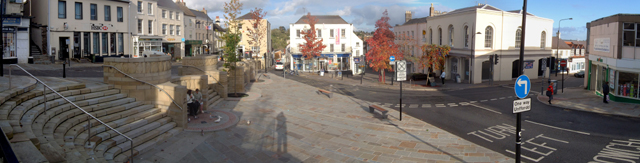 Beaufort Square, Chepstow. At least some of the original space of the square has been reclaimed by the upgrade scheme.